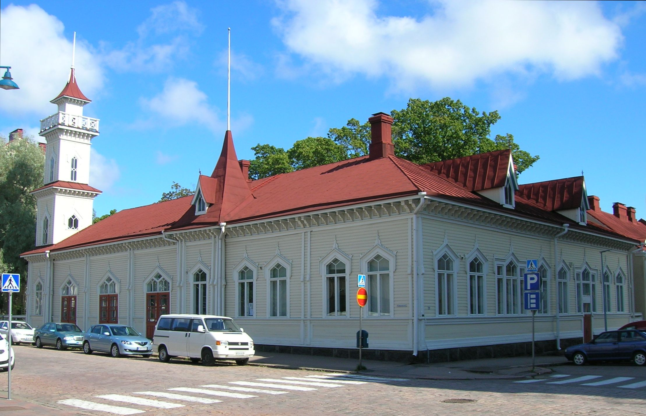 The old firestation in the centre of Kotka, Finland.